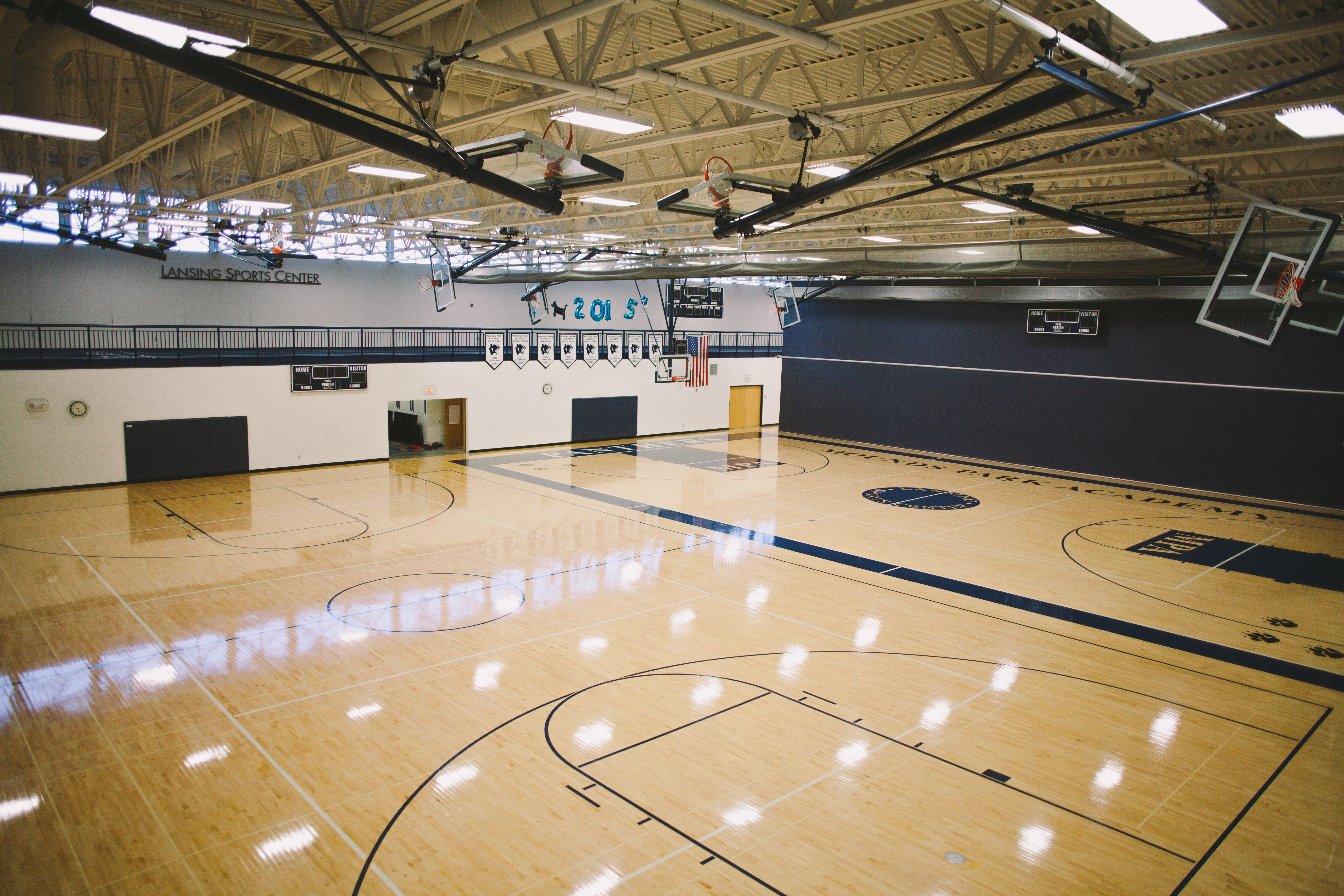 The Lansing Sports Center opened in 2006. It features 4 hardwood courts, a weight room, a 200m indoor track, a classroom and the robotics team room.